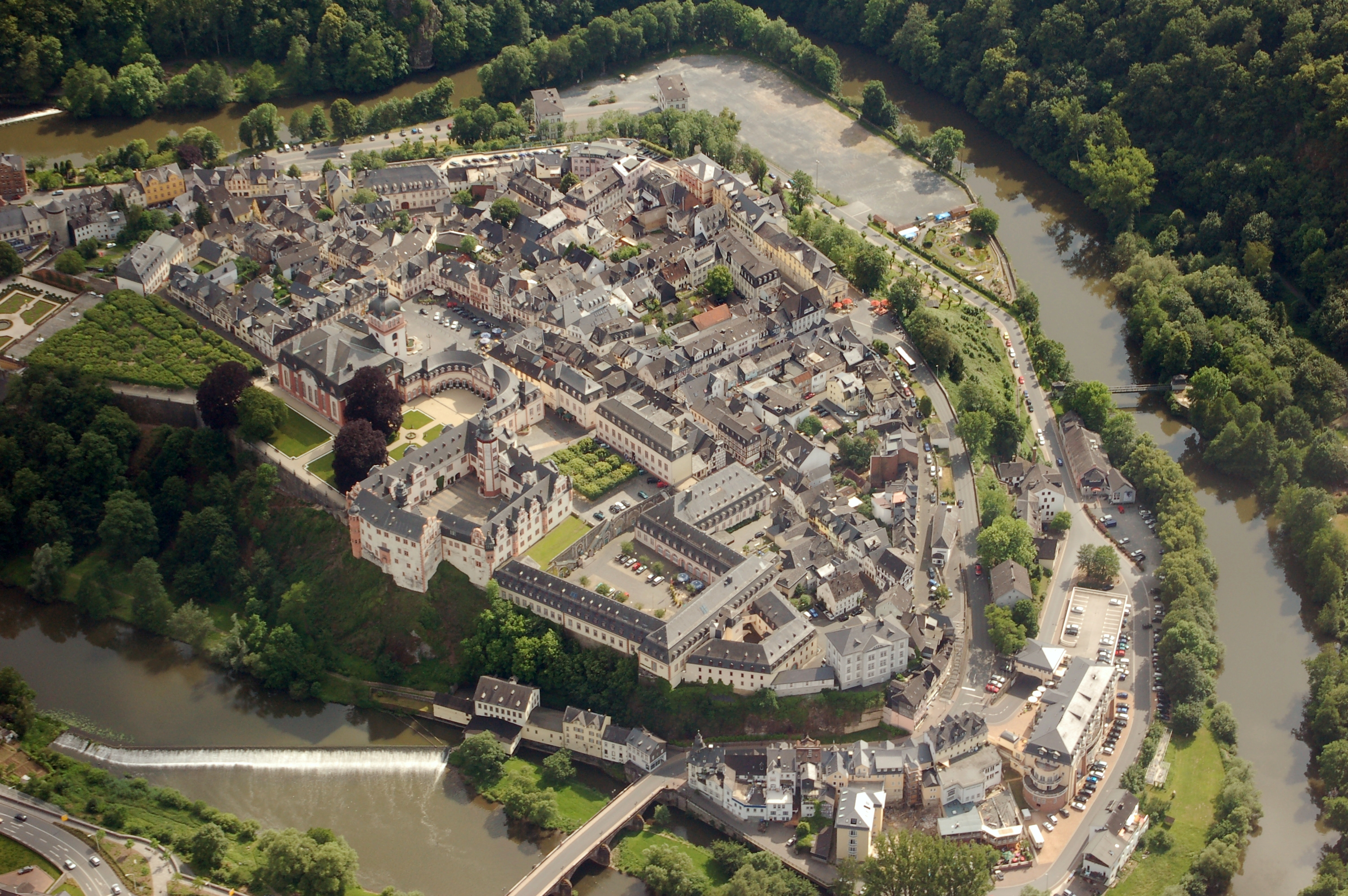 Aerial photograph of Weilburg, Hesse, Germany